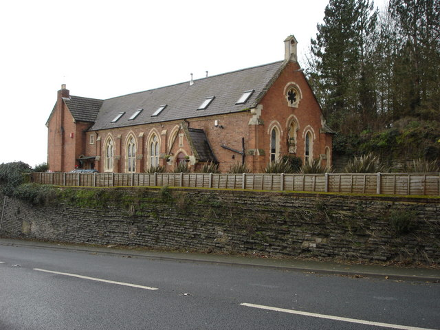 Former Roman Catholic church on the A38 Mythe Hill, Tewkesbury, Gloucestershire, now deconsecrated and converted to a house